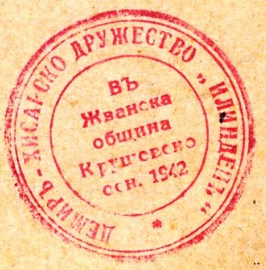 A seal of "Ilinden" from Demir Hisar region. This media file is produced by Wikipedian in Residence in Category:Wikipedian in Residence at DARM in 2017.